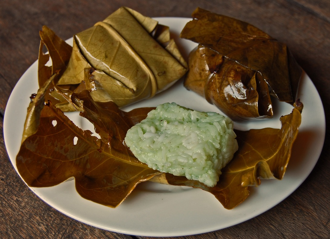 Fermented sticky rice, wrapped by Syzygium aqueum leaf. From Kuningan, West Java, Indonesia